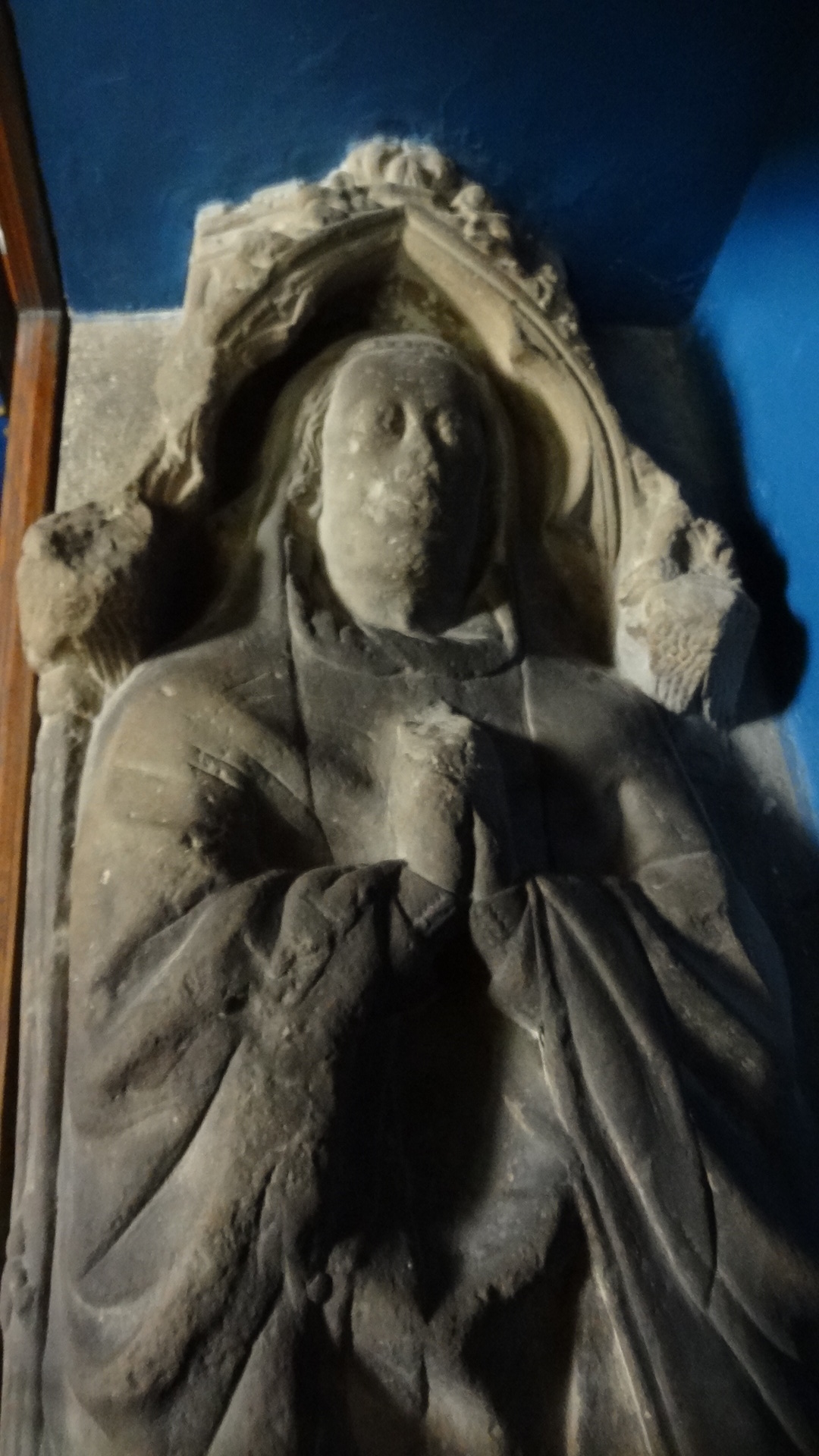 Memorial to unknown priest, Cadfan's Church, Tywyn